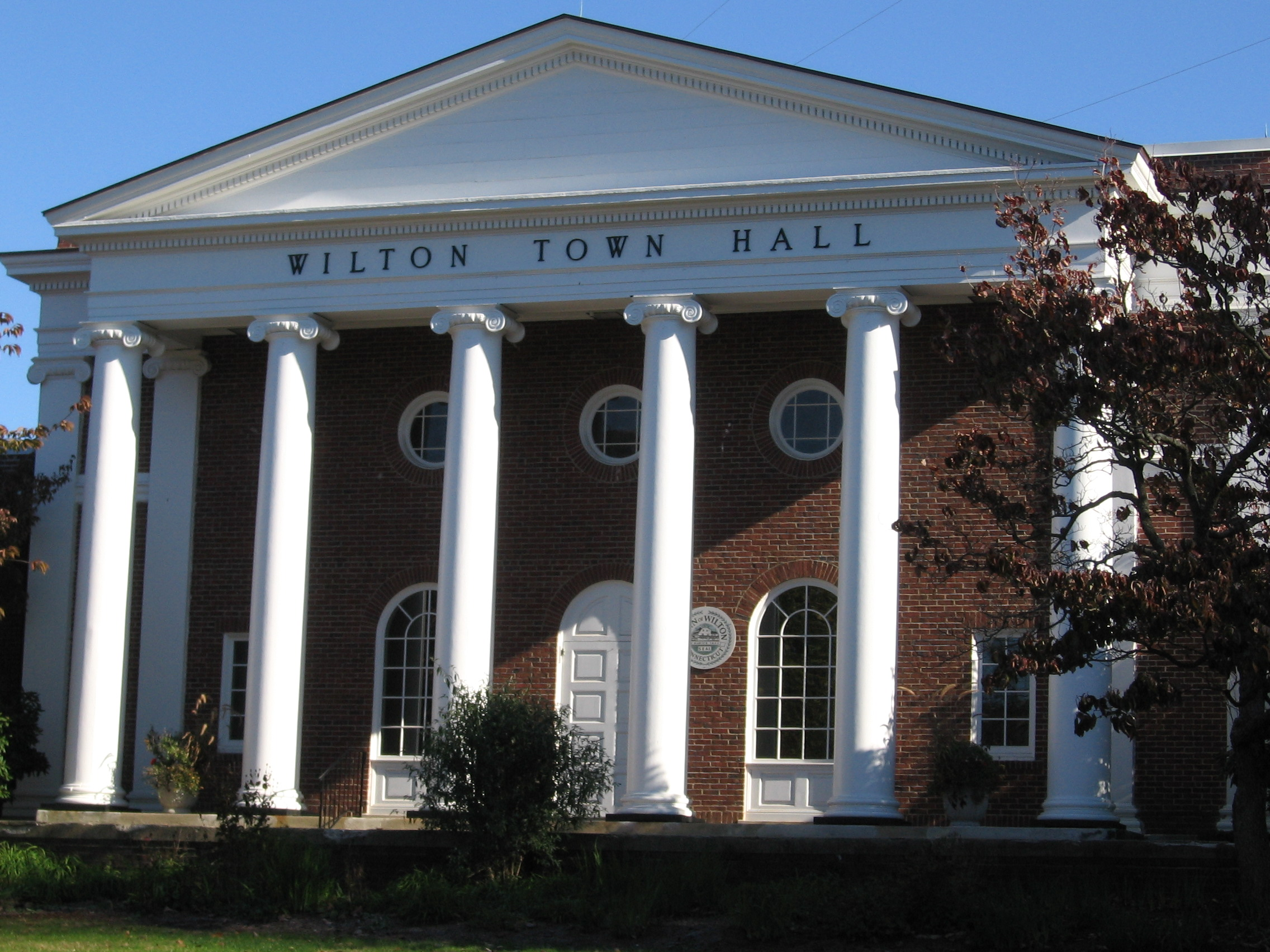 Wilton, Connecticut Town Hall, front